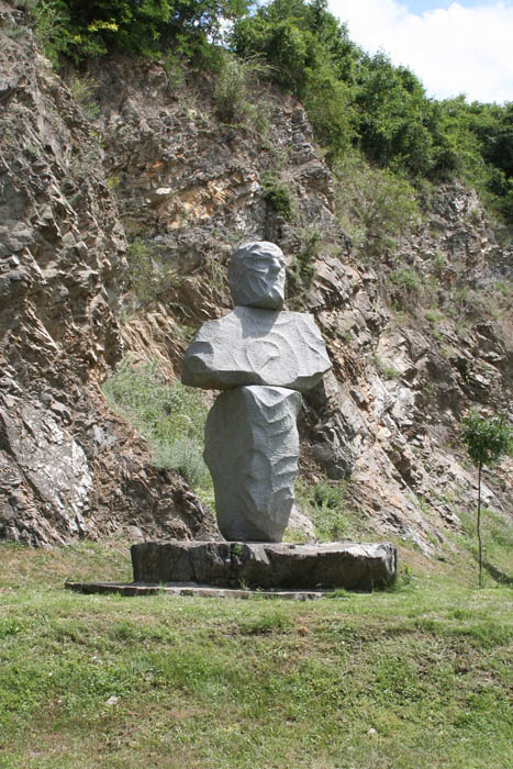 Captain Hetény's statue, Hosszúhetény; Hungary